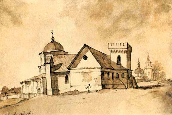 Lysohub house in Sedniv